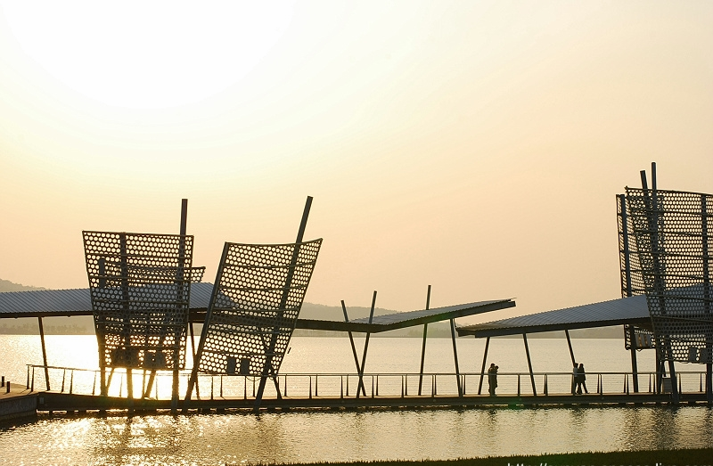 the light of Lihu lake